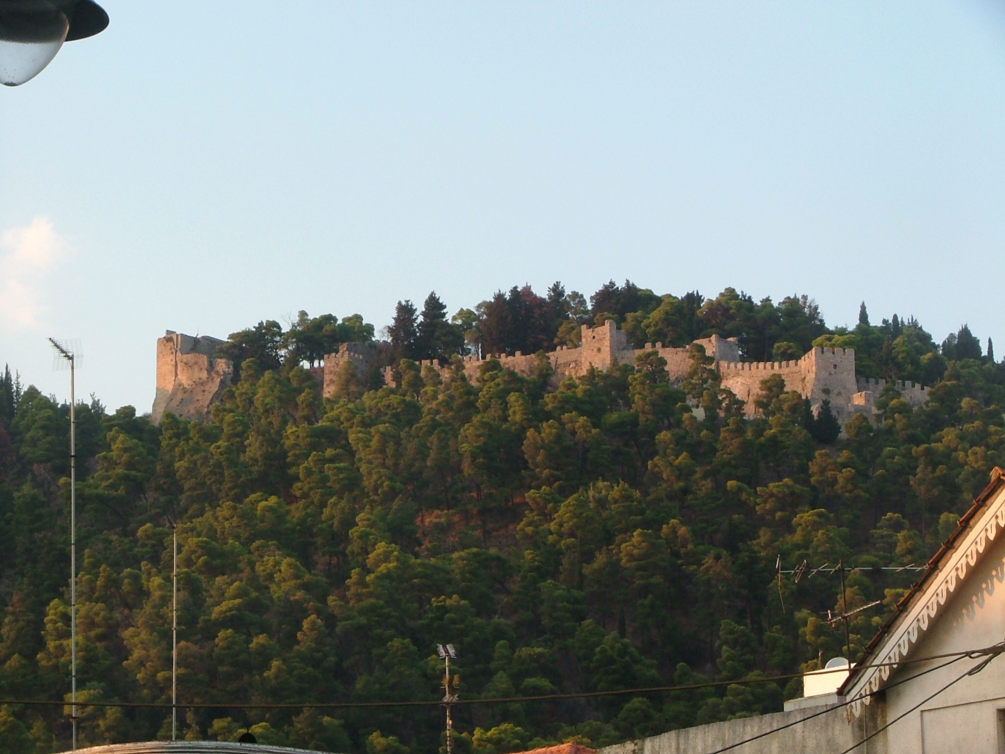 Venecian fortress in Naupactus or Nafpaktos or Ναύπακτος or Lepanto, Greece